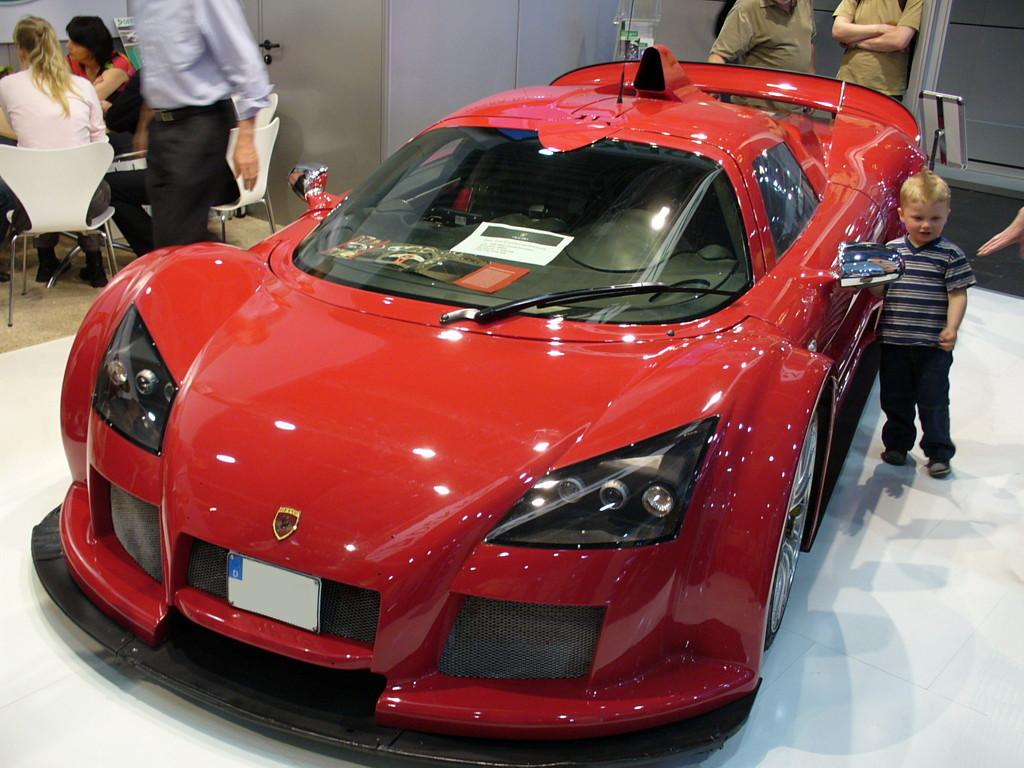 Gumpert Apollo